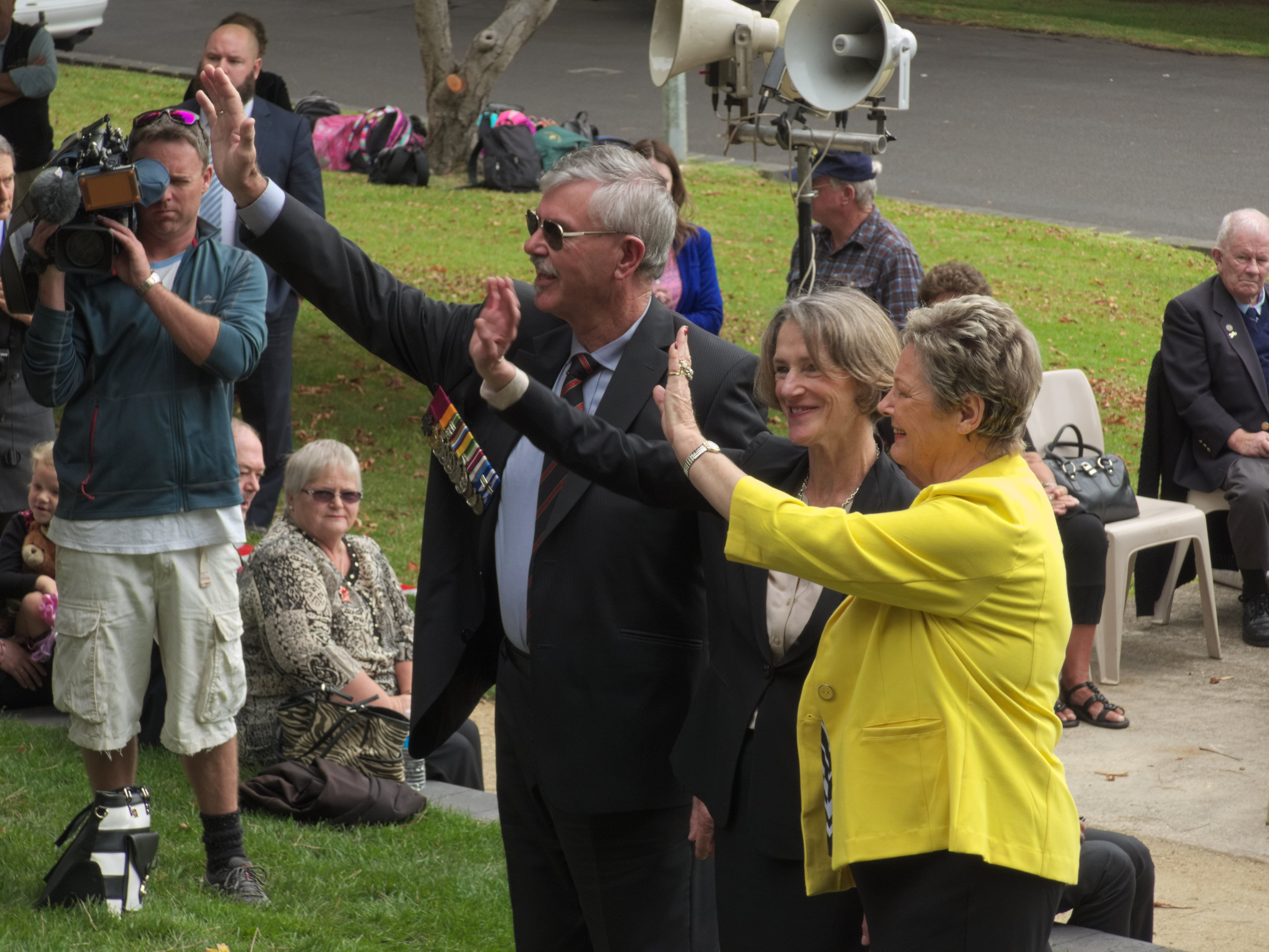 Unveiling ceremony for memorial wall and Corporal Cameron Baird's plinth in Burnie, Tasmania.